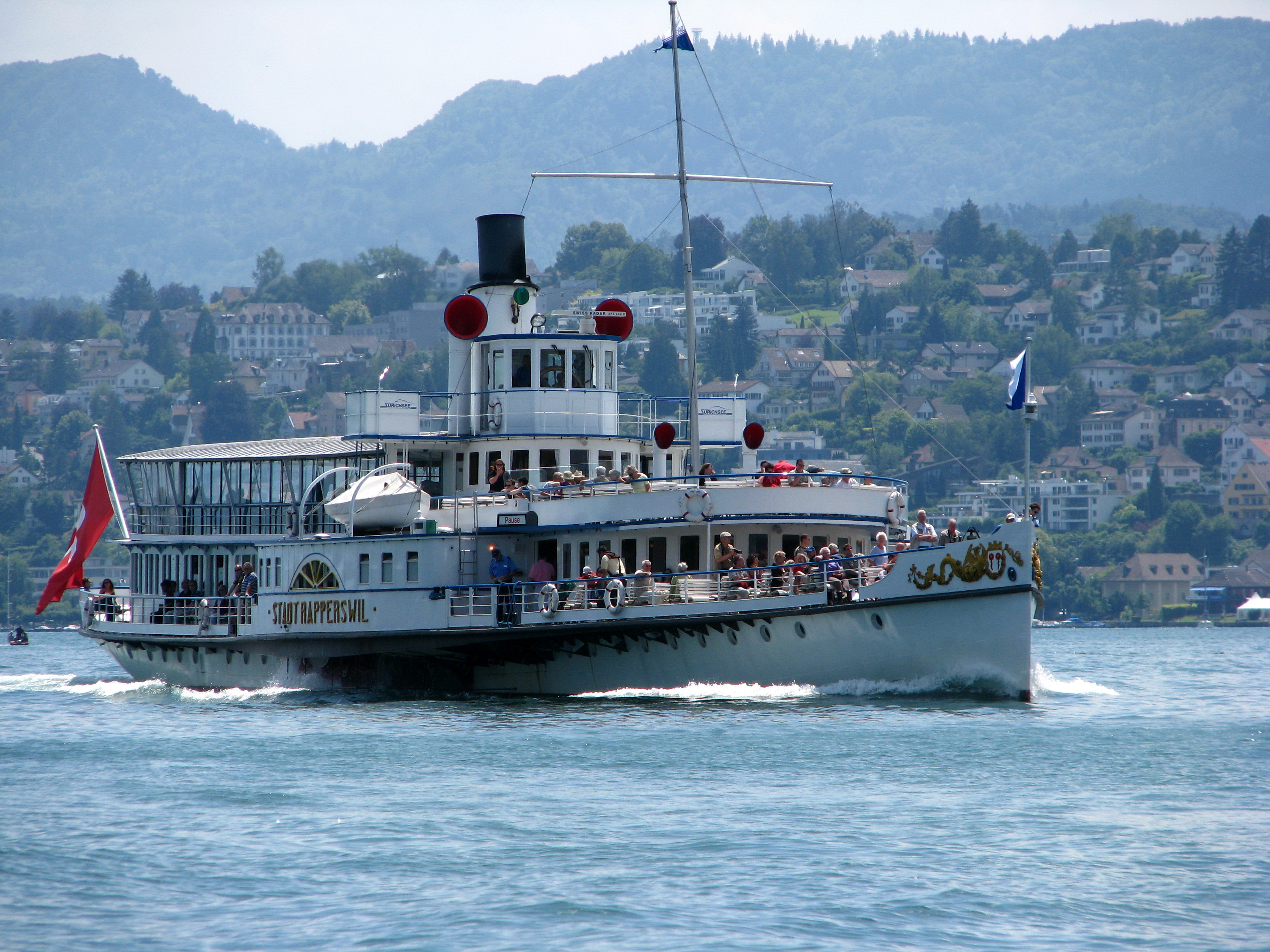 Zürichsee-Schifffahrtsgesellschaft (ZSG) : Paddle steamship Stadt Rapperswil on Zürichsee (Lake Zürich), as seen from Riesbach harbour, Albis pass in the background.